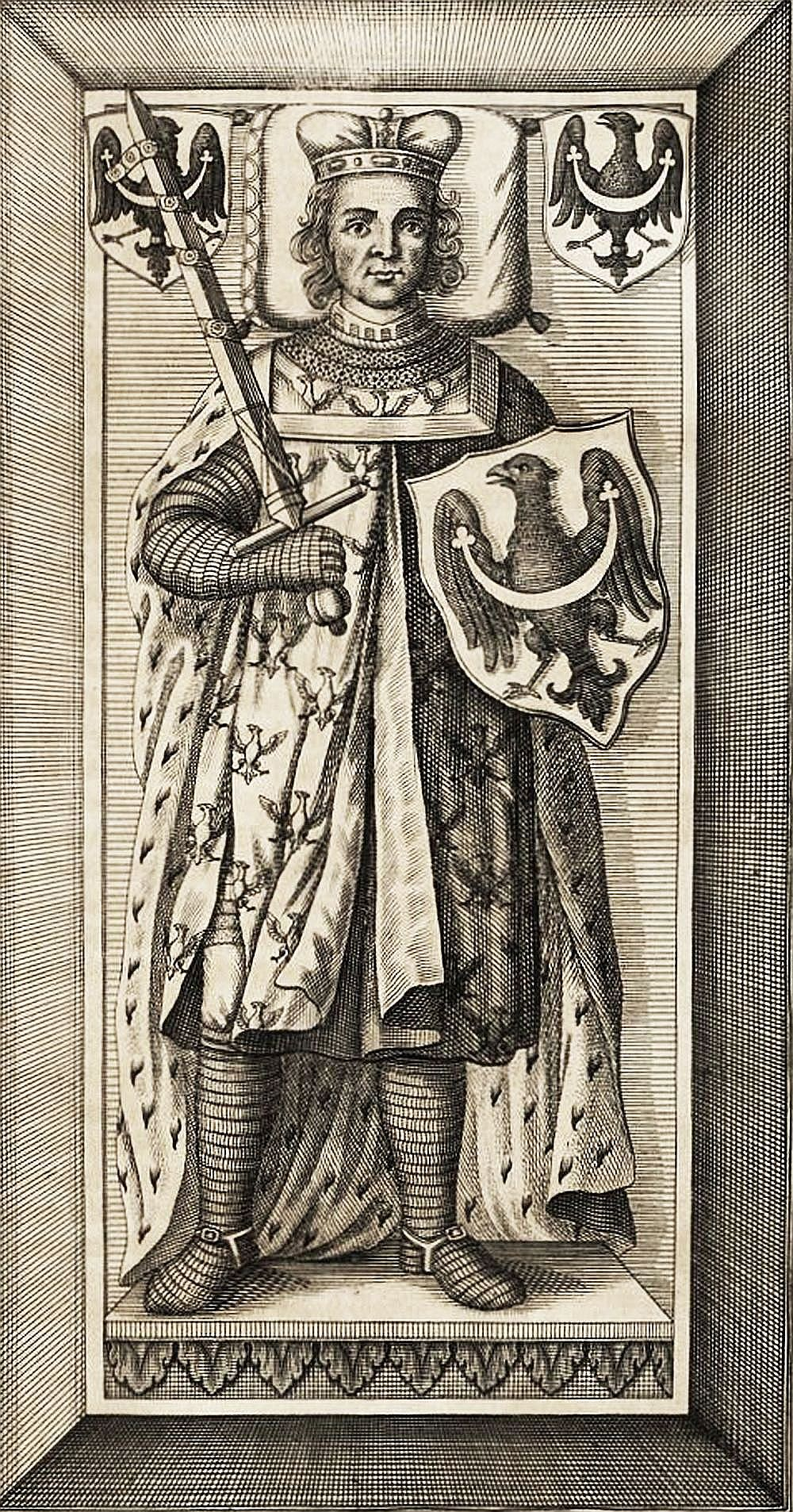 Henryk IV Probus (ca. 1257-1290), Duke of Silesia at Wrocław and Duke of the Polish Seniorate Province of Kraków